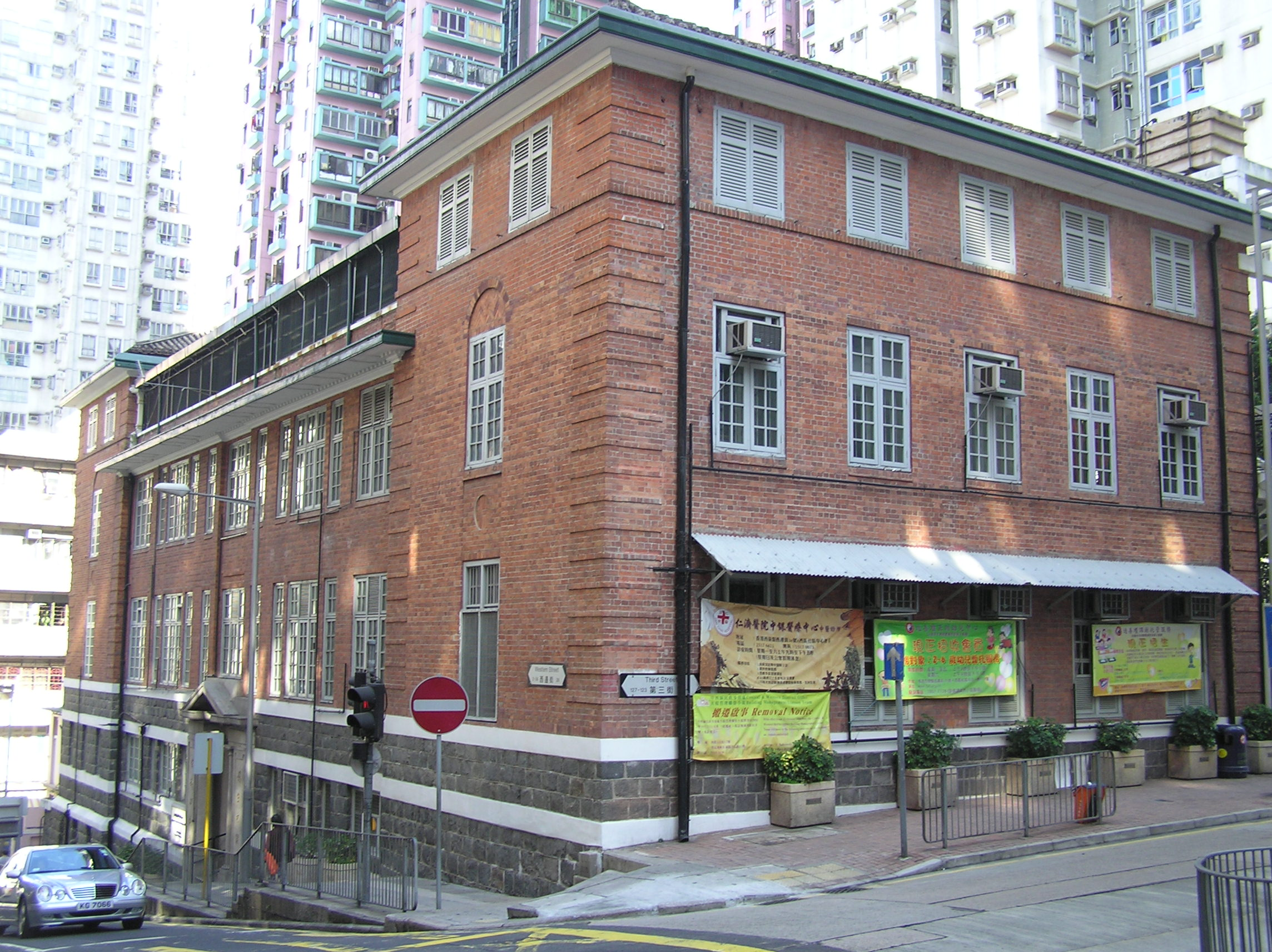 Western District Community Centre Sai Ying Pun Hong Kong, from Third Street.